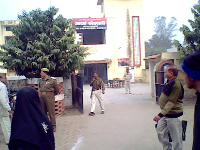 This is picture of Barabanki Kotwali(Police station).